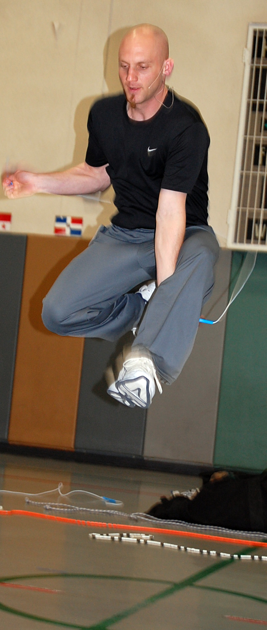 CAMP HUMPHREYS – Peter Nestler, a world-class jump rope champion with a message, entertained students from Humphreys American School, Tuesday, in the Youth Services gymnasium (Bldg. 570). Nestler, originally from Ketchikan, Alaska, but now calls Tulsa, Okla., home, travels the world performing at about 350 schools a year. While entertaining the students with his jump roping and unicycle riding skills, he delivers a message to the students that they “can fuse their talents with work, education and determination.” Following the demonstration, many of the students were impressed enough that they came up and asked for his autograph. – U.S. Army photos by Steven Hoover For more information on U.S. Army Garrison Humphreys and living and working in Korea visit: USAG-Humphreys' official web site or check out our online videos.